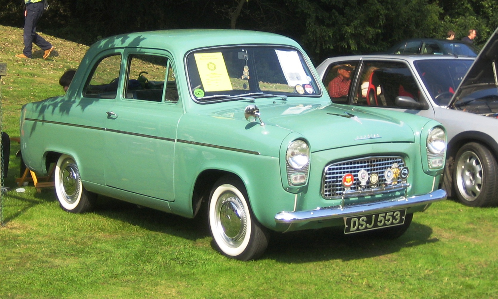 Ford Popular 100E